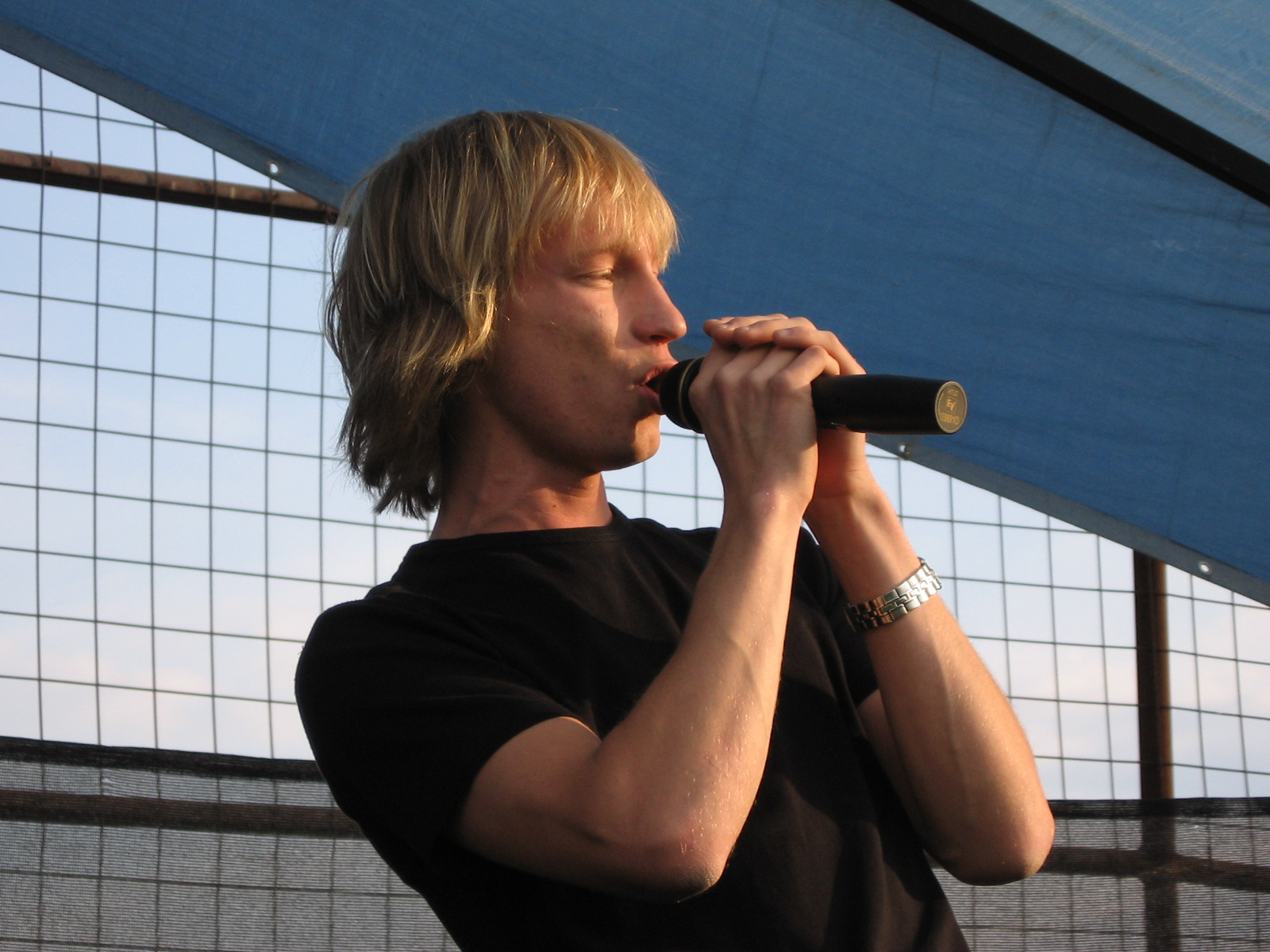 Zbyněk Drda (June 2009), Hájek (Czech Republic)